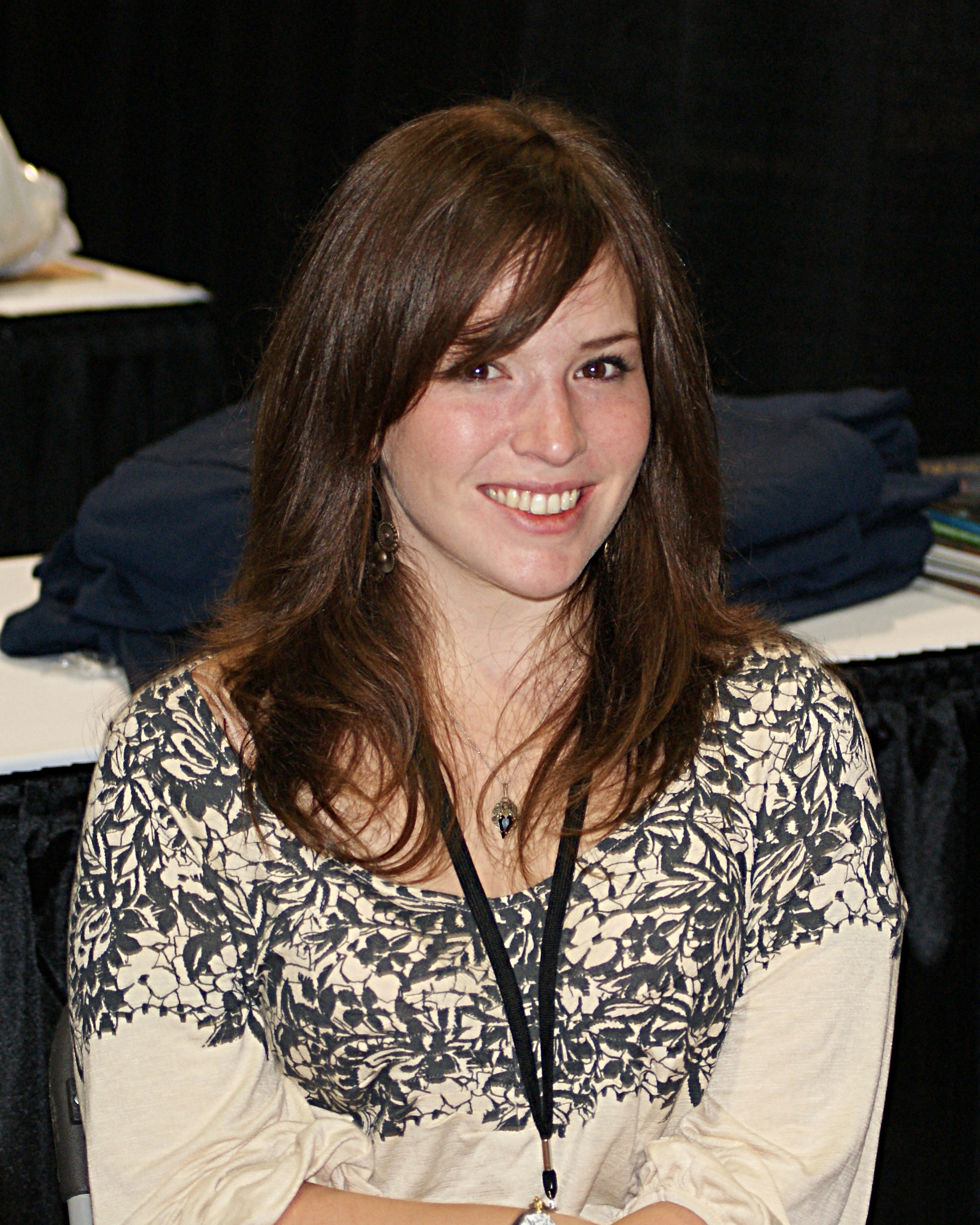 Kate Beaton, born September 8, 1983 in Nova Scotia, is a Canadian webcomic artist. Beaton's self-published “History Comics” won the 2009 Doug Wright Award for Best Emerging Talent, and her webcomic, “Hark! A Vagrant” was nominated for a Harvey Award for Best Online Comics Work in 2010, and Joe Shuster Awards in 2009 and 2010. Photo was taken at the Calgary Comic & Entertainment Expo (BMO Centre, Calgary, Alberta, Canada).